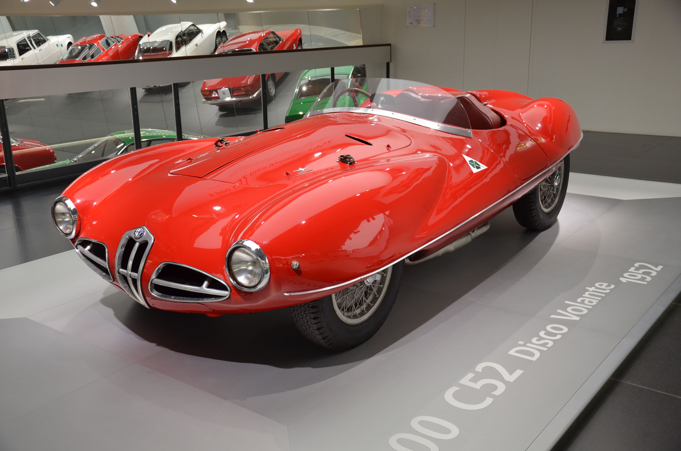 Alfa Romeo 1900 C52 Disco Volante on display in the Museo Storico Alfa Romeo.